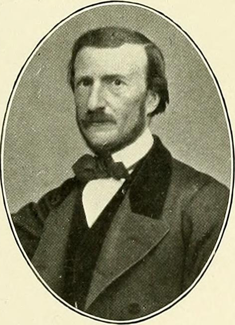 Portrait of the French botanist Dominique Clos